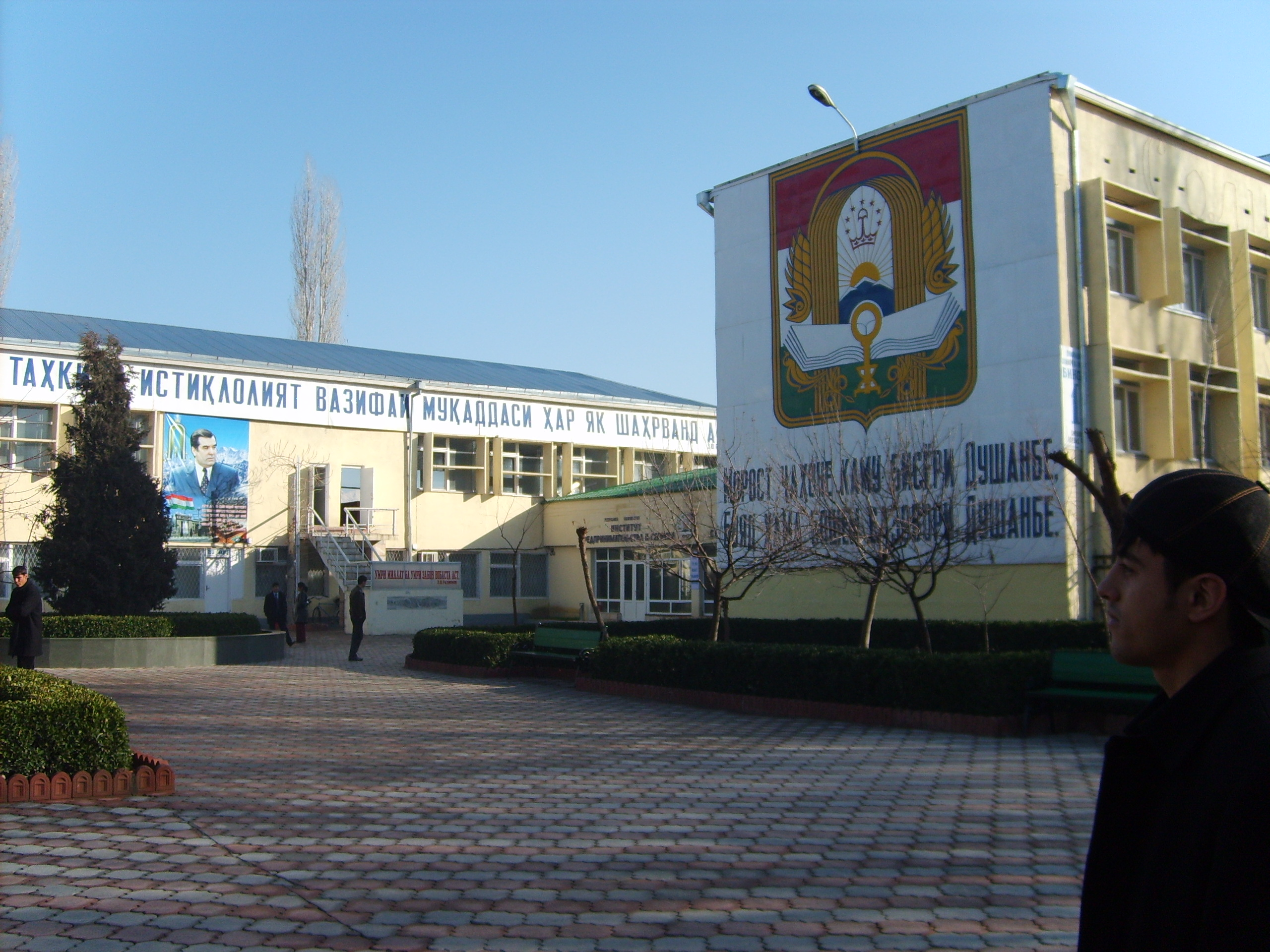 Business and Service Institute (Dushanbe, Tajikistan)